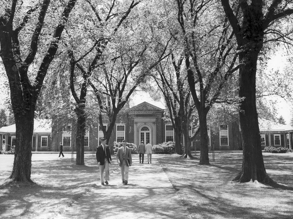 Grubbs Quadrangle at The Loomis Chaffee School (then the Loomis School) in Windsor, Conn. circa 1950s